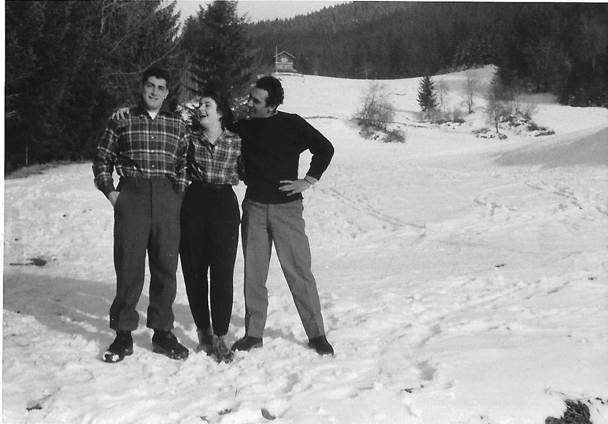 A picture of Tony Voci, DIEGO Voci, and Josiane Schaefer Image of Tony, Josiane, and DIEGO on ski slope (mont blanc)